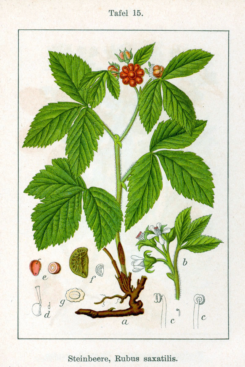 Rubus saxatilis L. Original Description Steinbeere, Rubus saxatilis